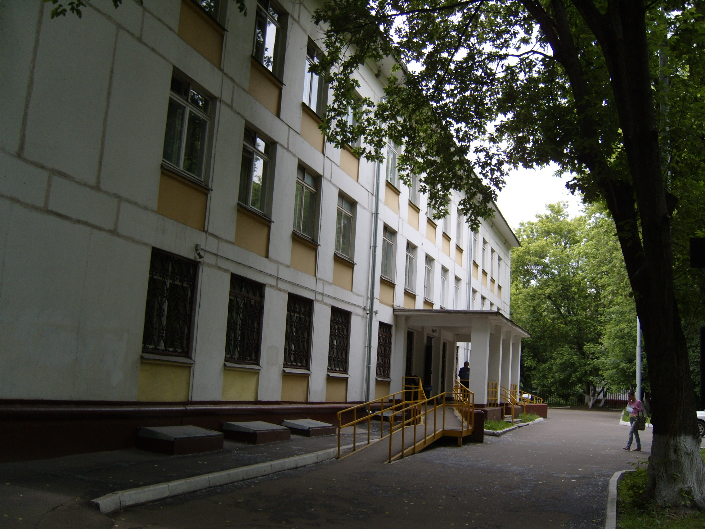 City children clinic № 28 on Halturinskaya street in Moscow